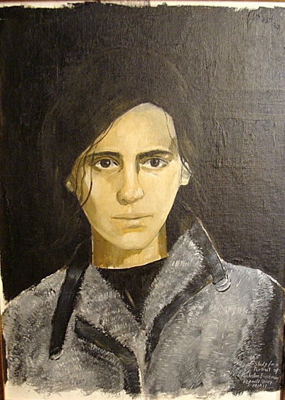 Portrait of Justine Frischmann, Britpop singer by Reginald Gray. Egg tempera on canvas.